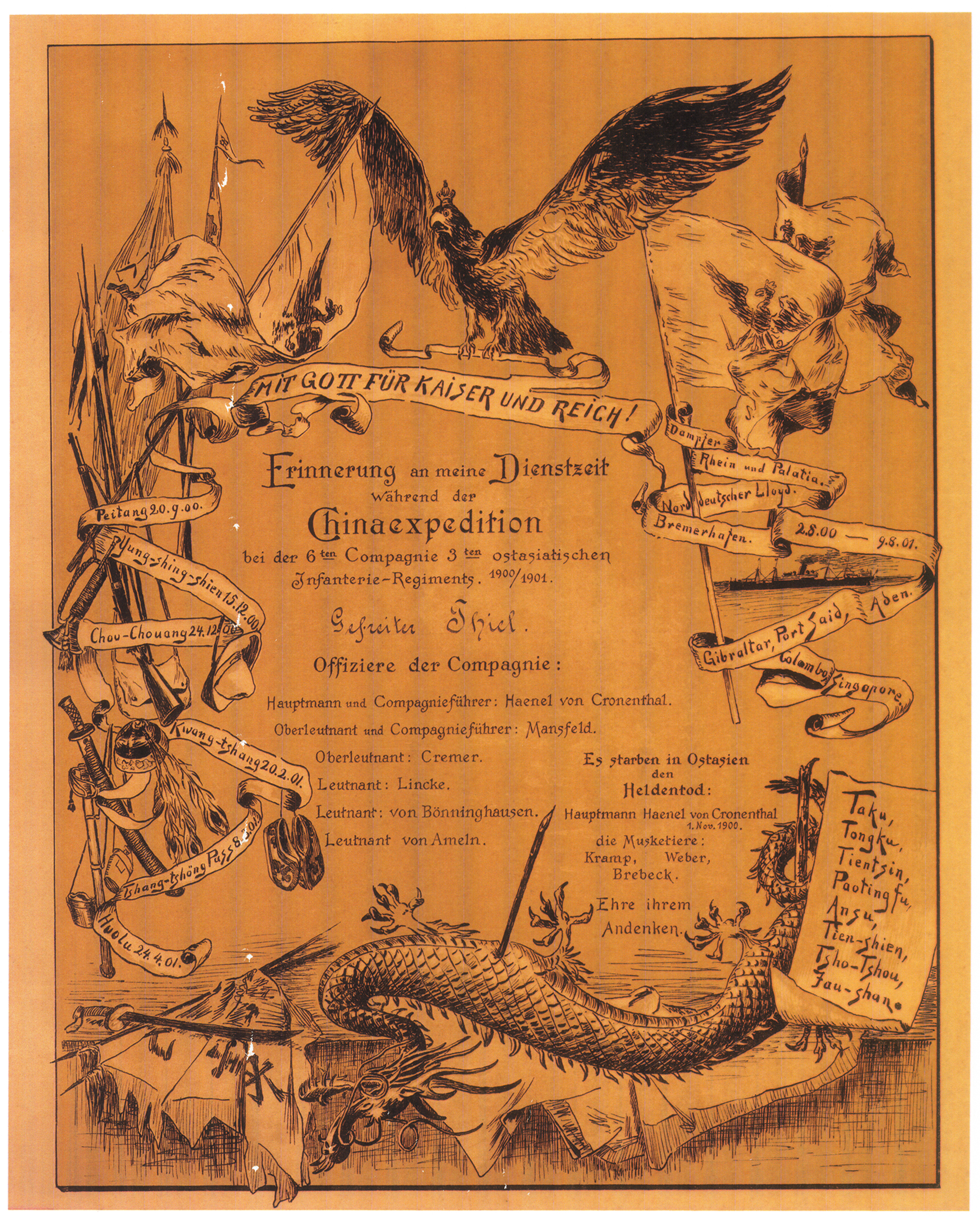 This document was given to my great-grandfather. My great-grandfather Georg Thiel was a soldier in the German military expedition to China in the year 1900. Matthias Amine Gattwinkel, Bonn, July 2010